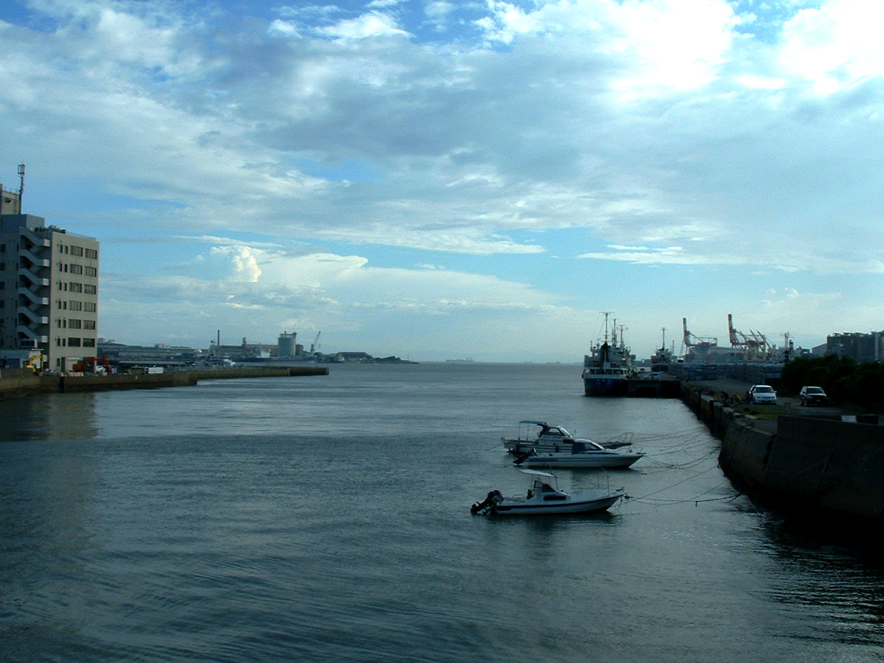 Port of Ube